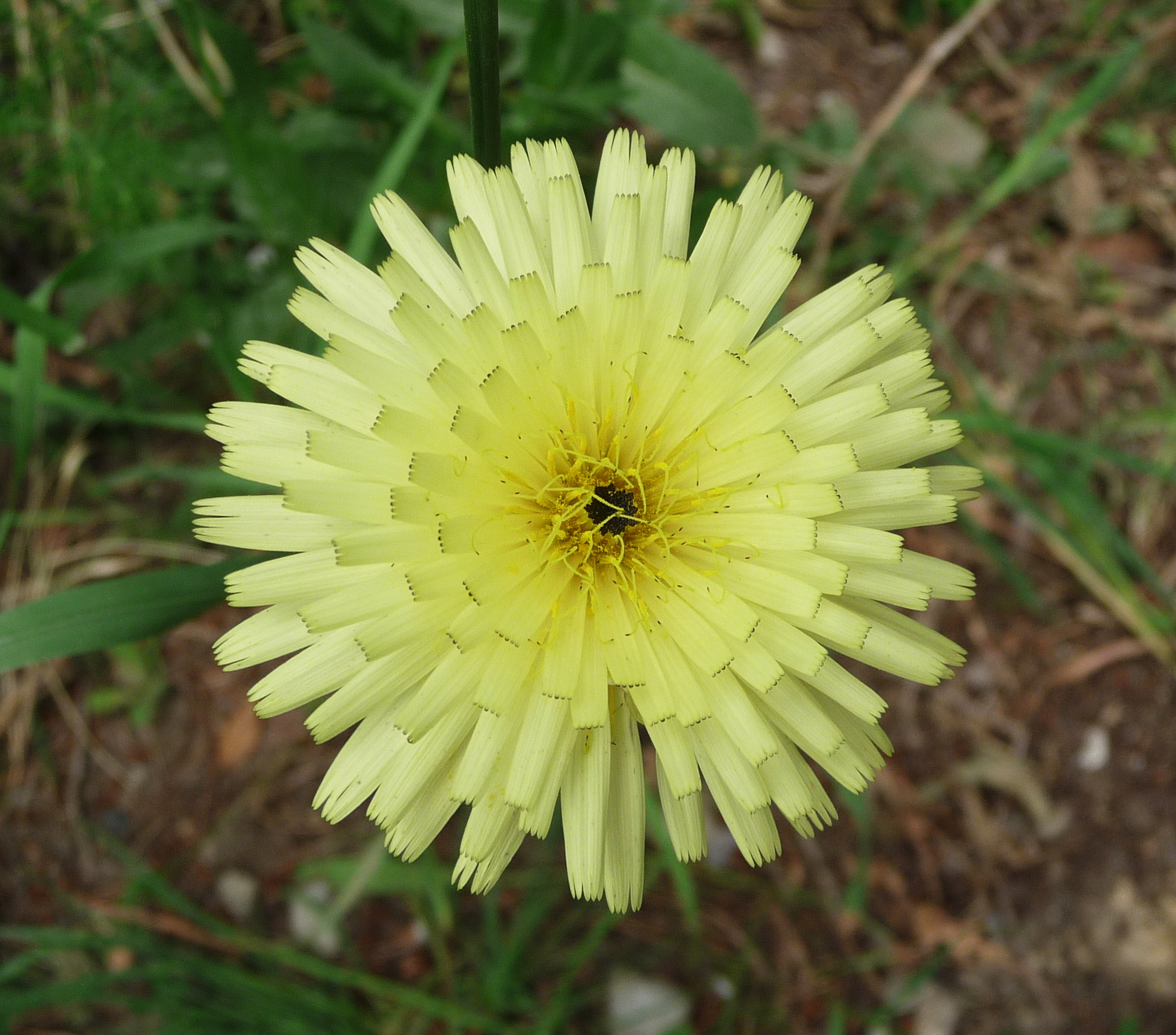 Urospermum dalechampii, near Livorno, Tuscany, Italy